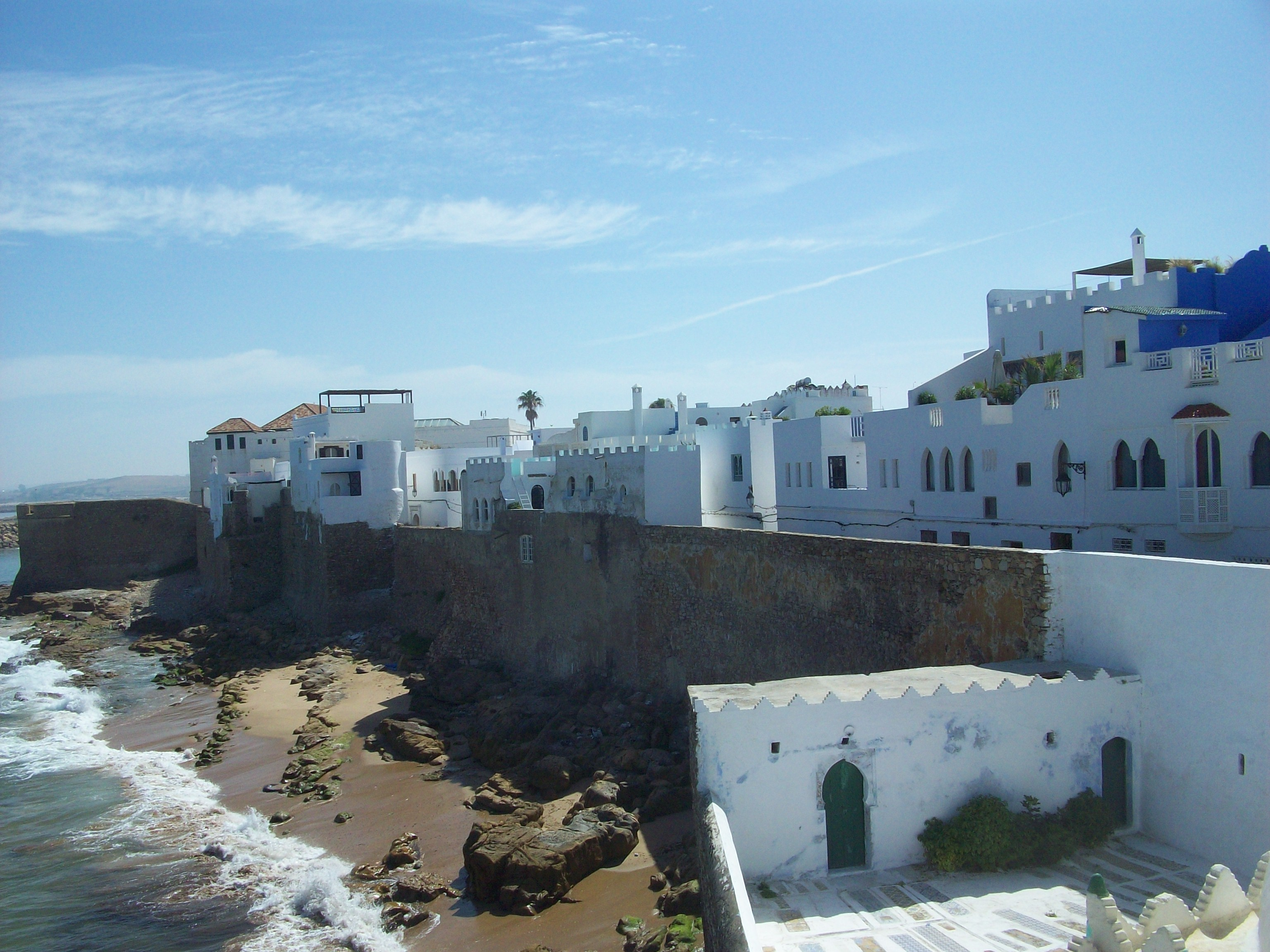 Assilah, Morocco